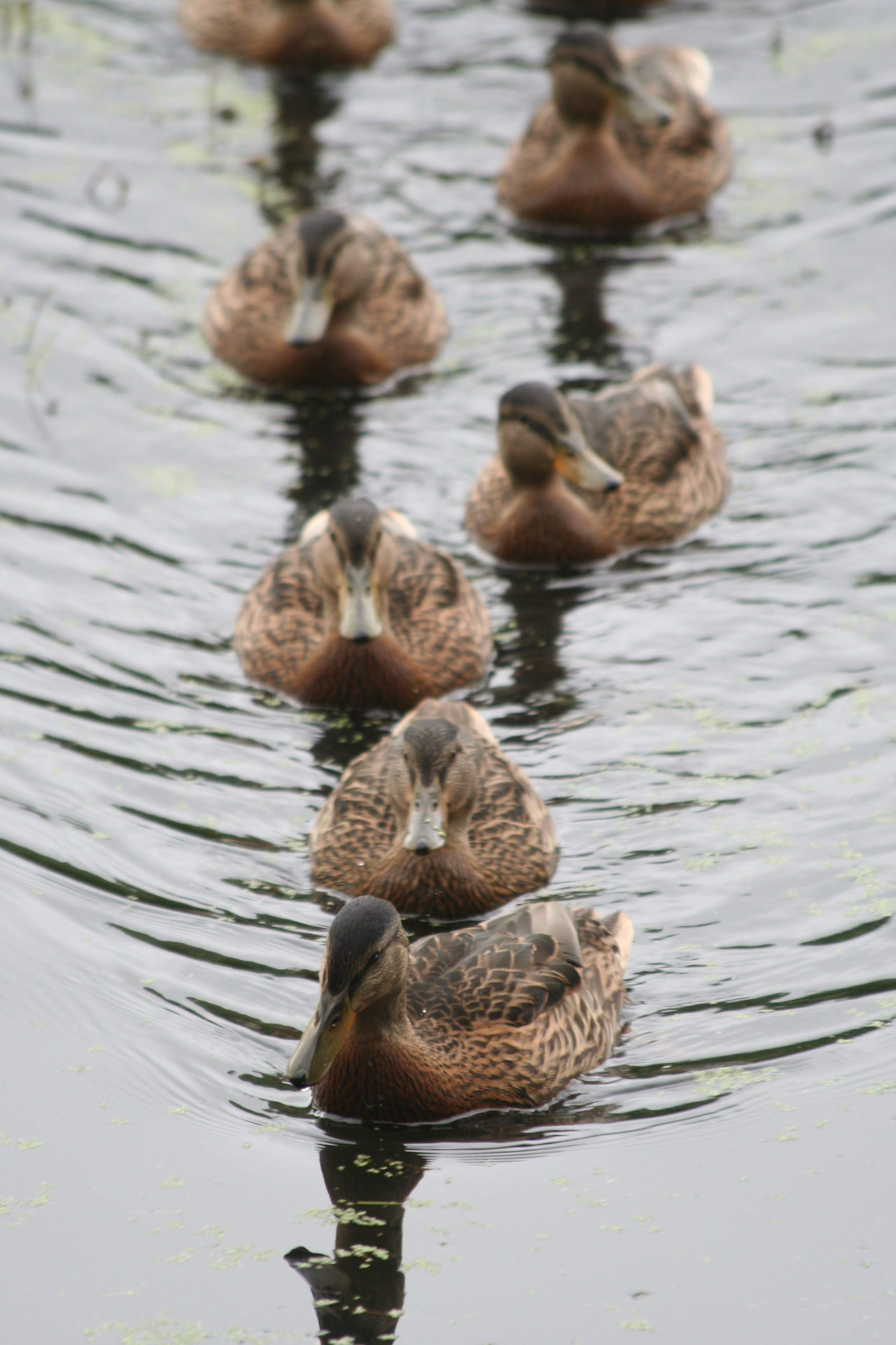 Ducks Swimming In A Group